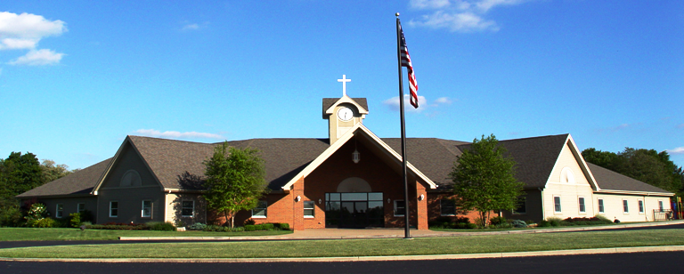 School Picture